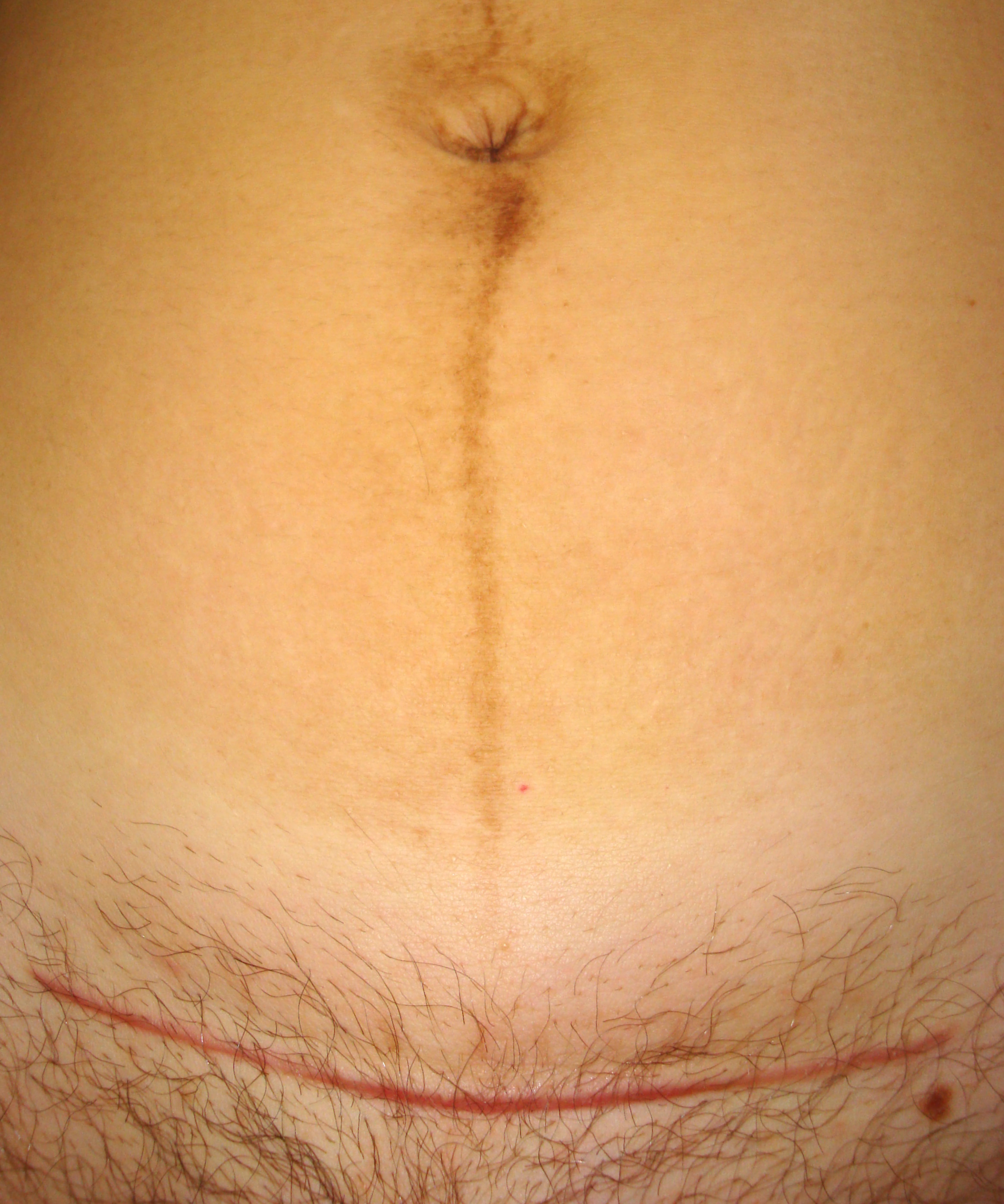 A Cesarean section scar and linea nigra visible on a 31 year old female weighing 140 pounds (63.5 kg). The photograph was taken on 07-19-2008, approximately 7 weeks after childbirth on 05-30-2008. This Cesarean section was performed due to dystocia.